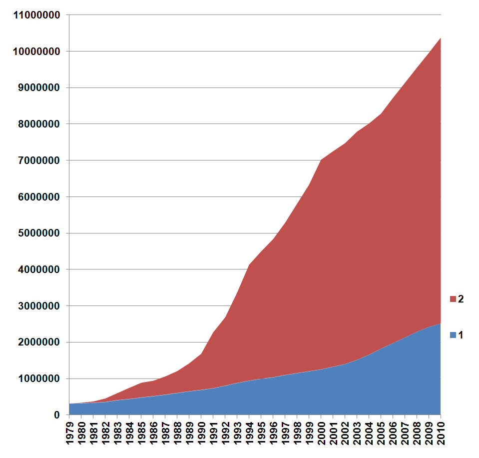 Shenzhen (China) city population: blue - population with permanent registration (hukou); red - with not-permanent registration